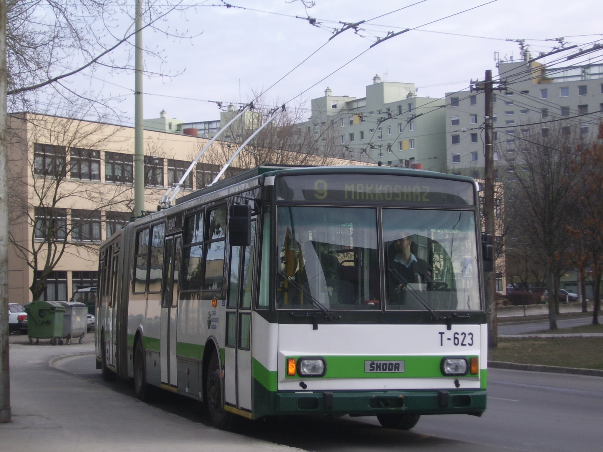 Trolley line 9 in Szeged.